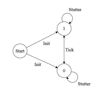 The finite state machine generated by the TLC model checker. This image was created using the Finite State Machine Designer ( which is FOSS under the MIT license (